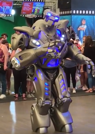 Titan the robot in Butlins Minehead.